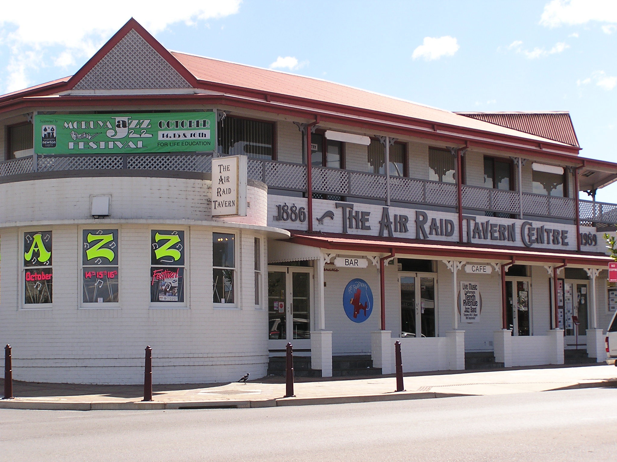 The Air Raid Tavern in the mainstreet of Moruya, New South Wales, Australia.